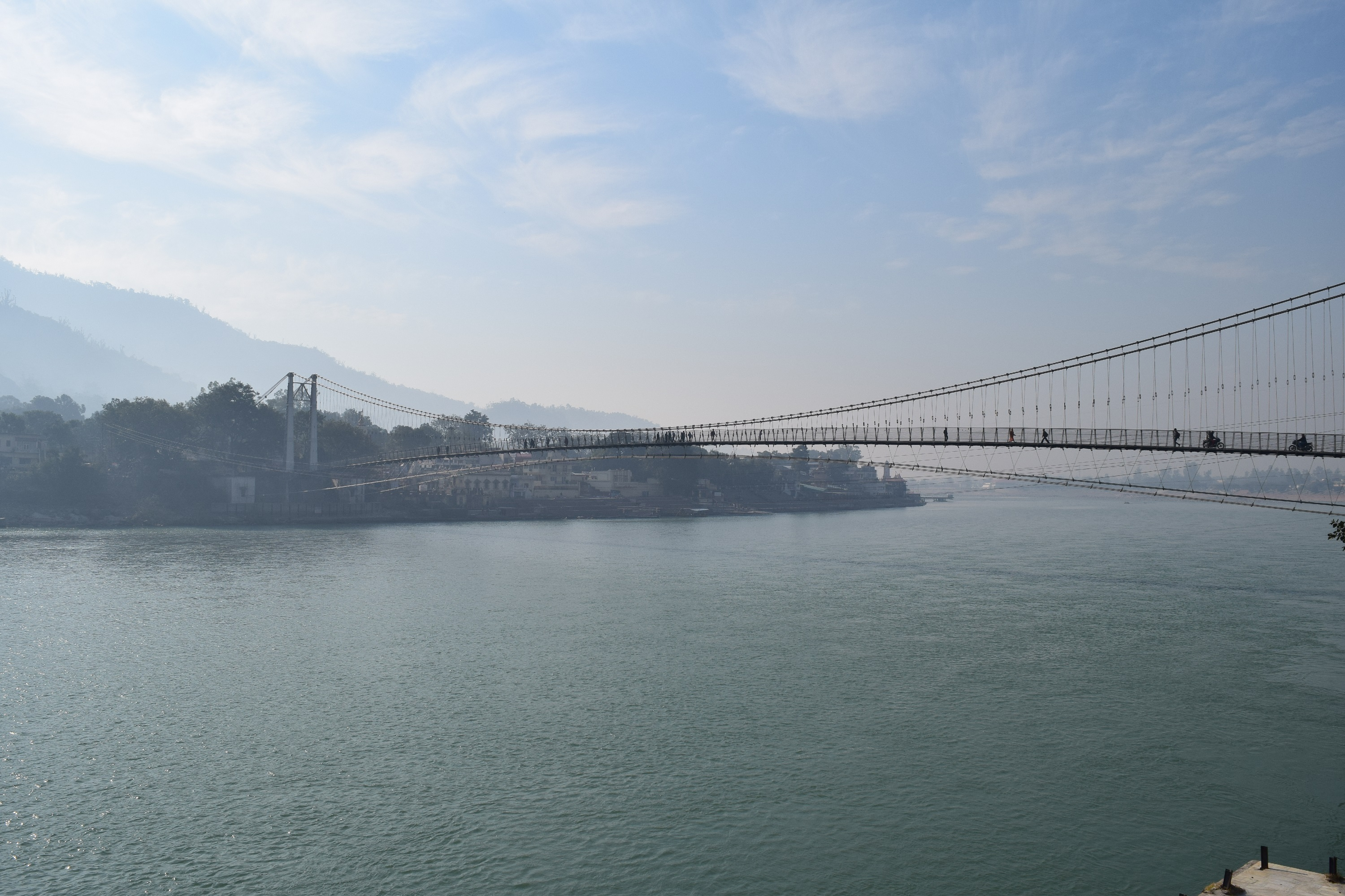 laxman jhoola in rishikesh